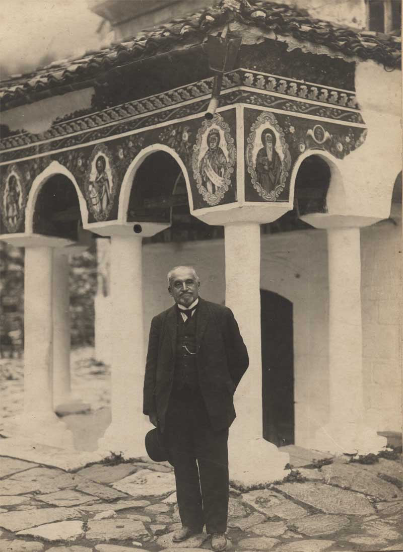 Léon Lamouche in Bachkovo Monastery, 1920s.